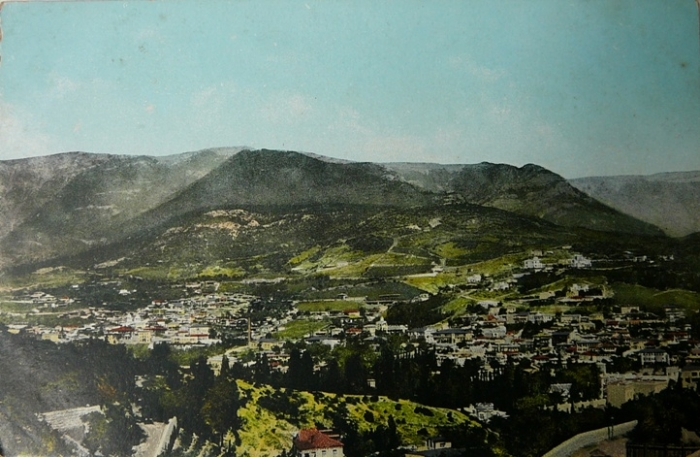 Autka, Yalta uyezd, Crimea, 1900.